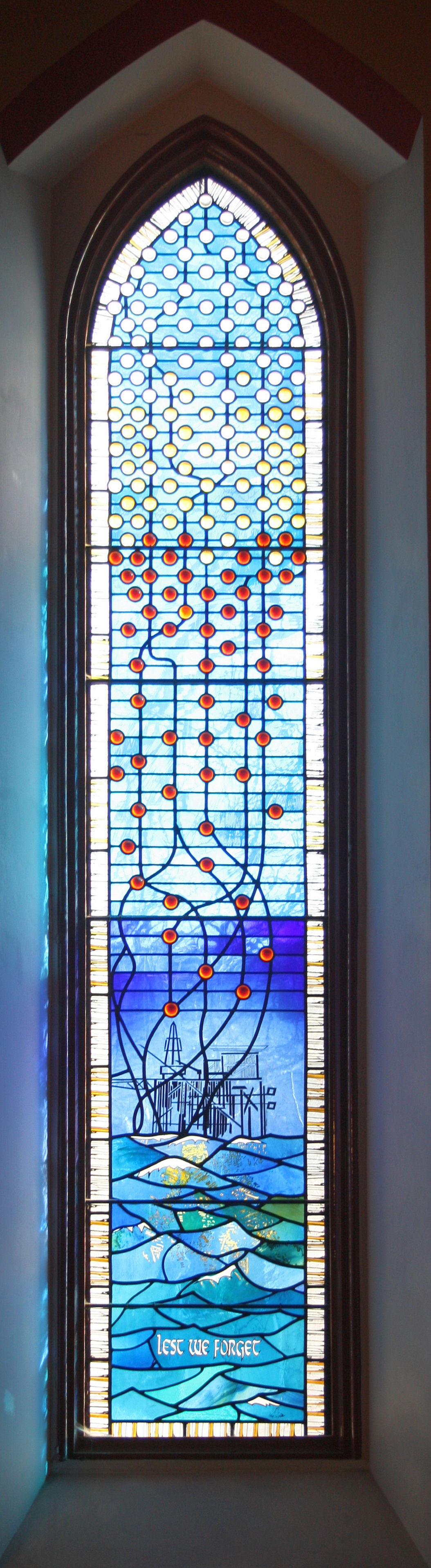 The Piper Alpha Window, Ferryhill Church, Aberdeen In commemoration of the 167 lives lost in the 1988 disaster on Occidental's Piper Alpha platform in the North Sea. The company held a memorial service in the church. The window was created by Jennifer Jane Bayliss, a member of the congregation. Each of the small circular discs represents a victim of the disaster. At the foot of the window they are red, as the souls of the dead emerge from the flames in the stormy sea. As they rise up the window the colour lightens as the souls rise to Heaven